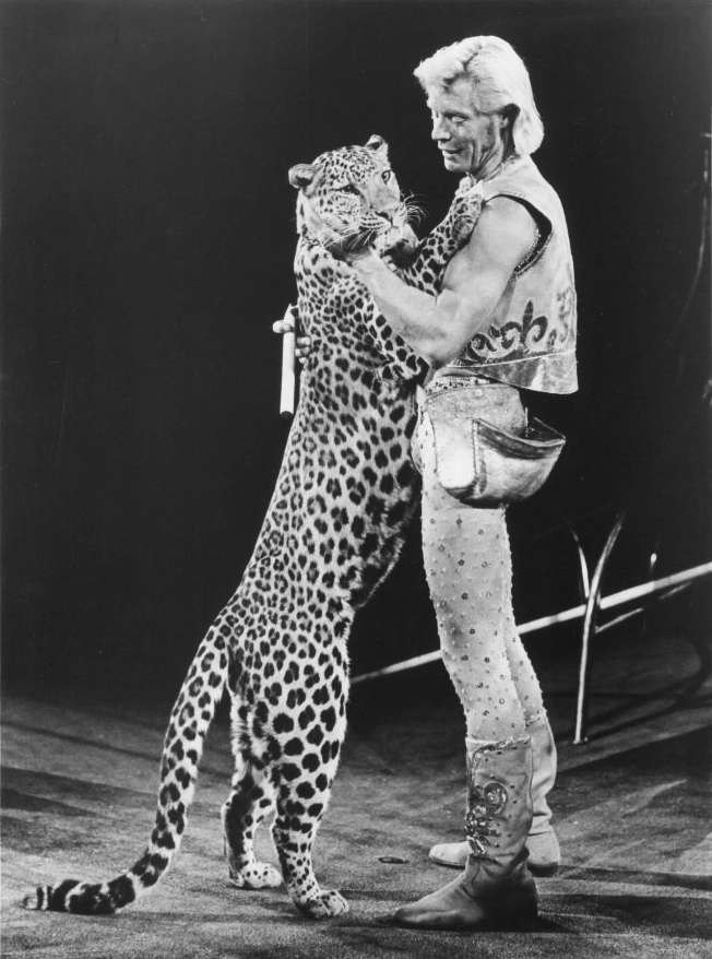 Publicity photo of animal trainer Gunther Gebel-Williams promoting his appearance with the 107th edition of Ringling Bros. and Barnum & Bailey Circus.